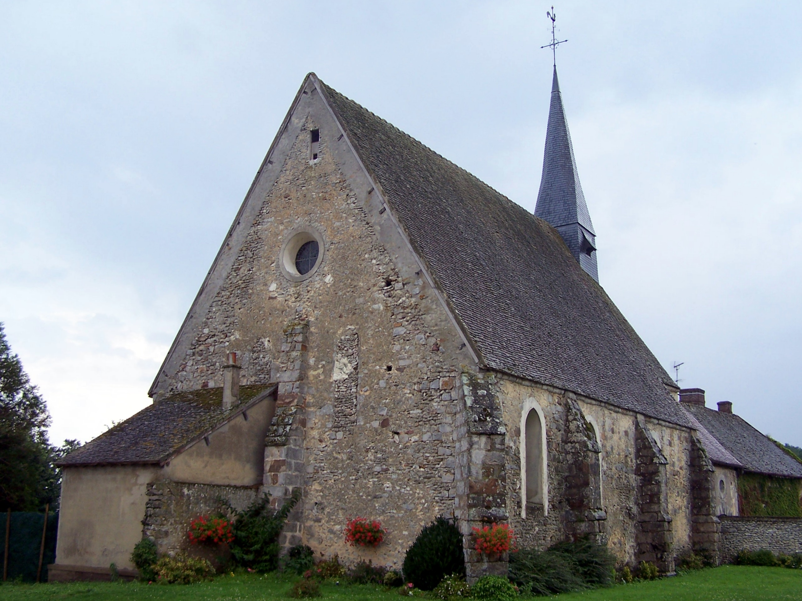 Church of Gressey (Yvelines, France)